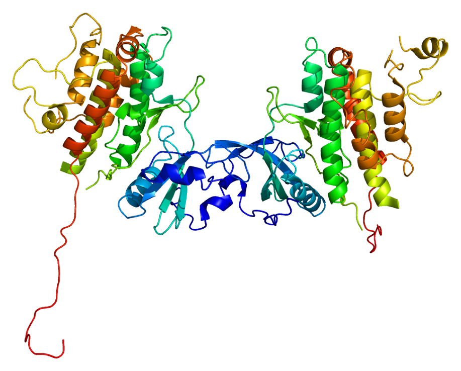 Structure of the MAPKAPK2 protein. Based on PyMOL rendering of PDB 1kwp.